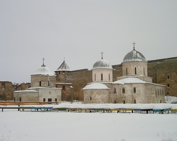 Uspenskaya and Nikolskaya churches inside the fortress. Ivangorod fortress